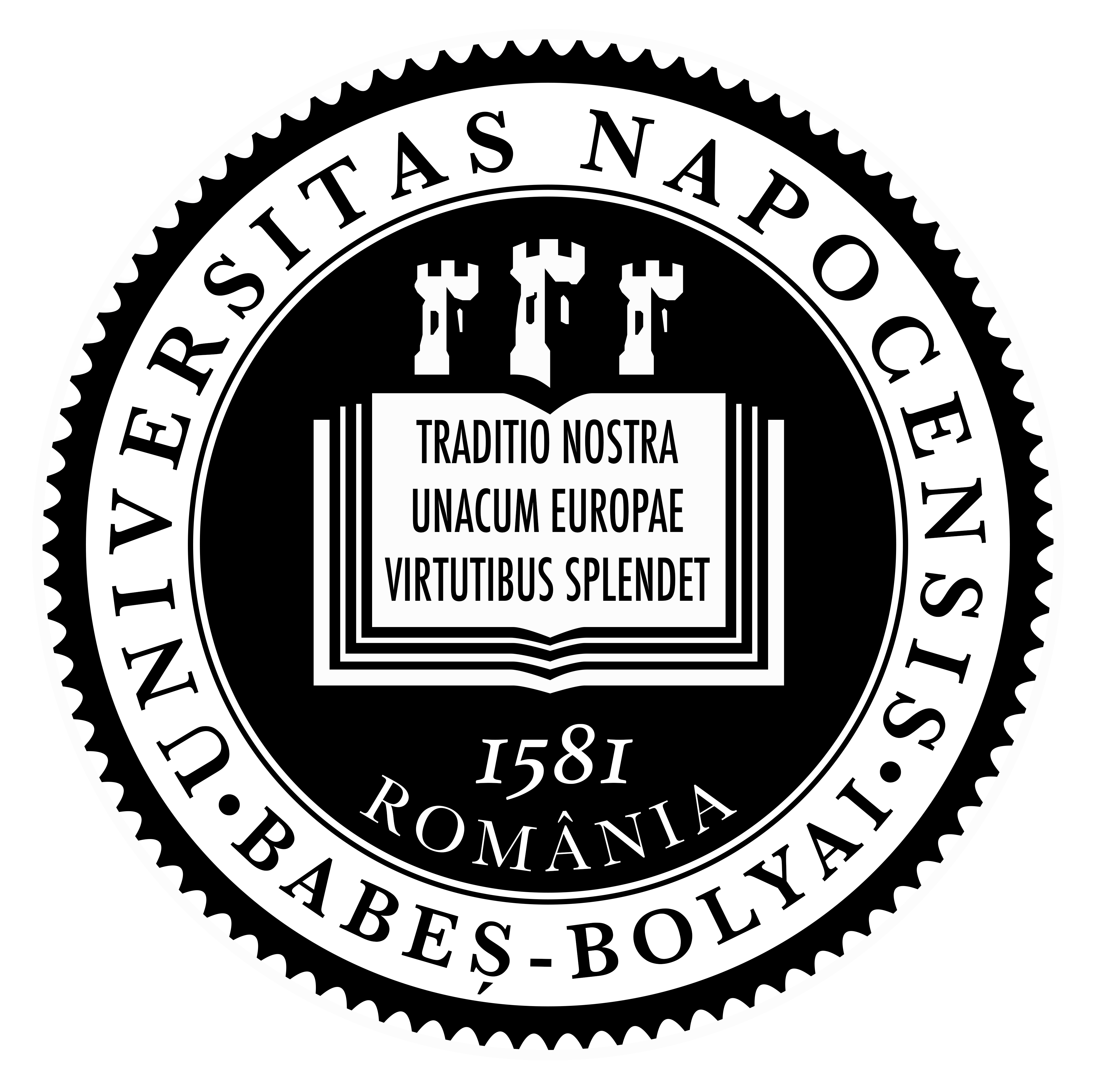 The Babeș-Bolyai University in Cluj-Napoca Logo